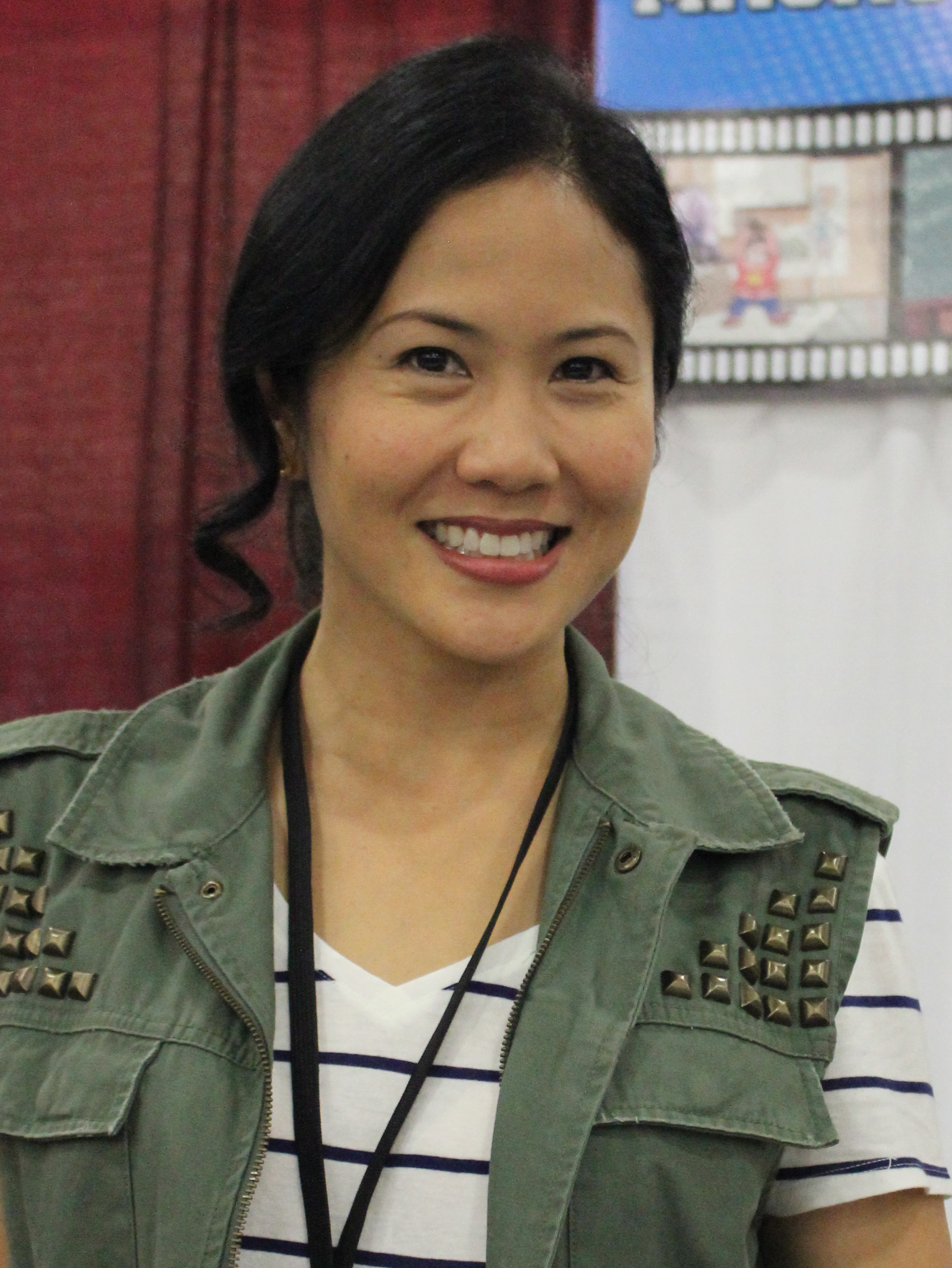 Taken at Florida Supercon 2016 By Emmanuel Rivera